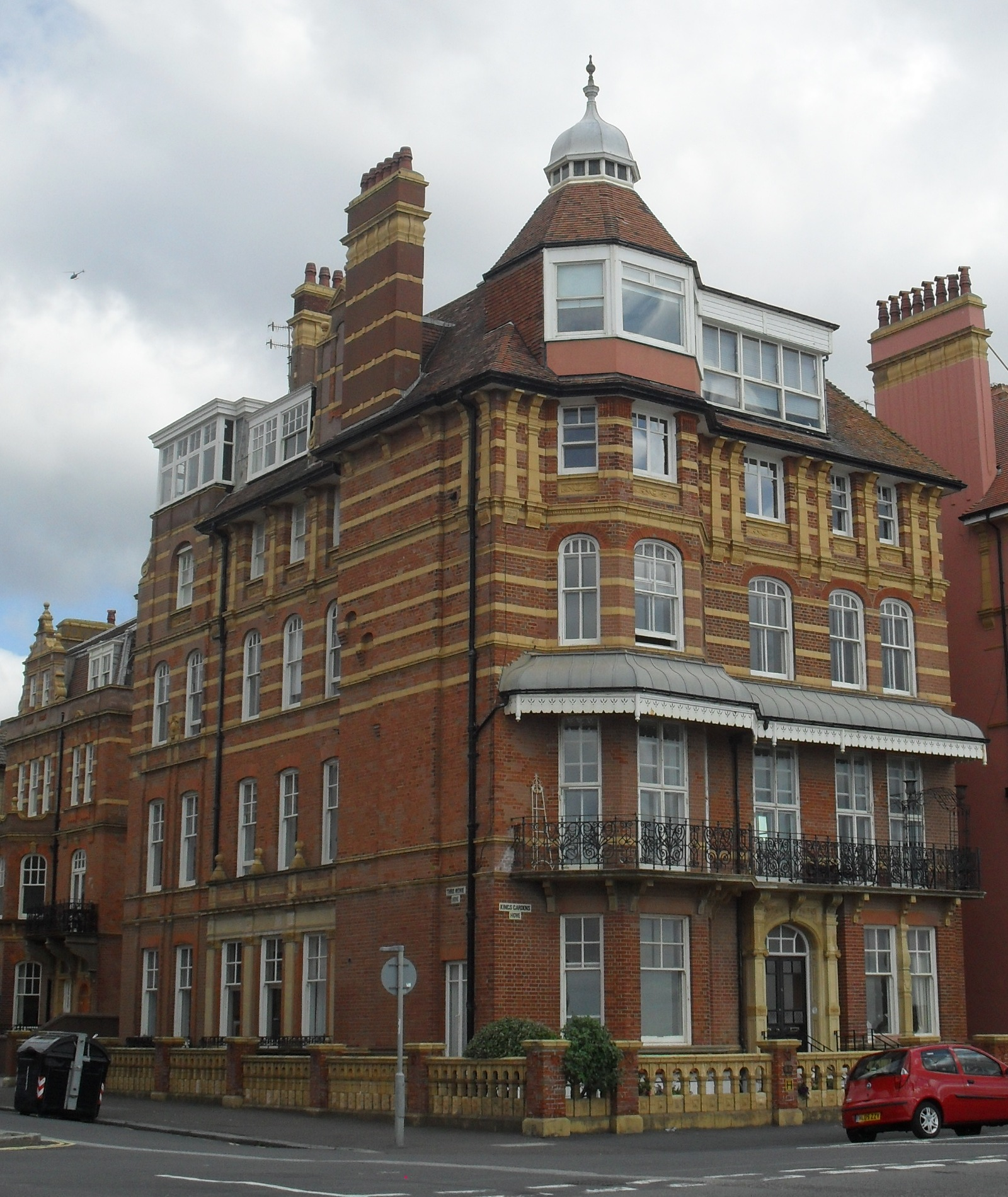 4 King's Gardens, Hove, City of Brighton and Hove, England. Part of a four-house seafront terrace of Grade II-listed buildings. The house has terracotta and faience embellishments.